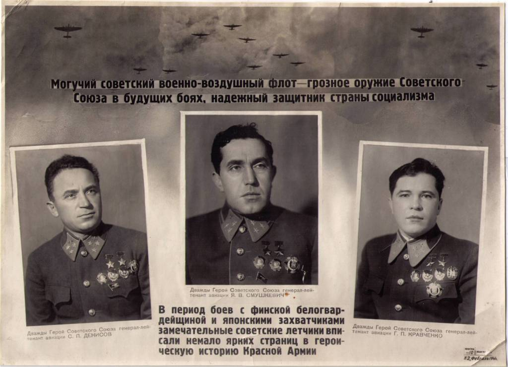 Very early 1940's Soviet Postal card featuring Generals Sergey Denisov, Yakov Smushkevich, and Grigory Kravchenko.